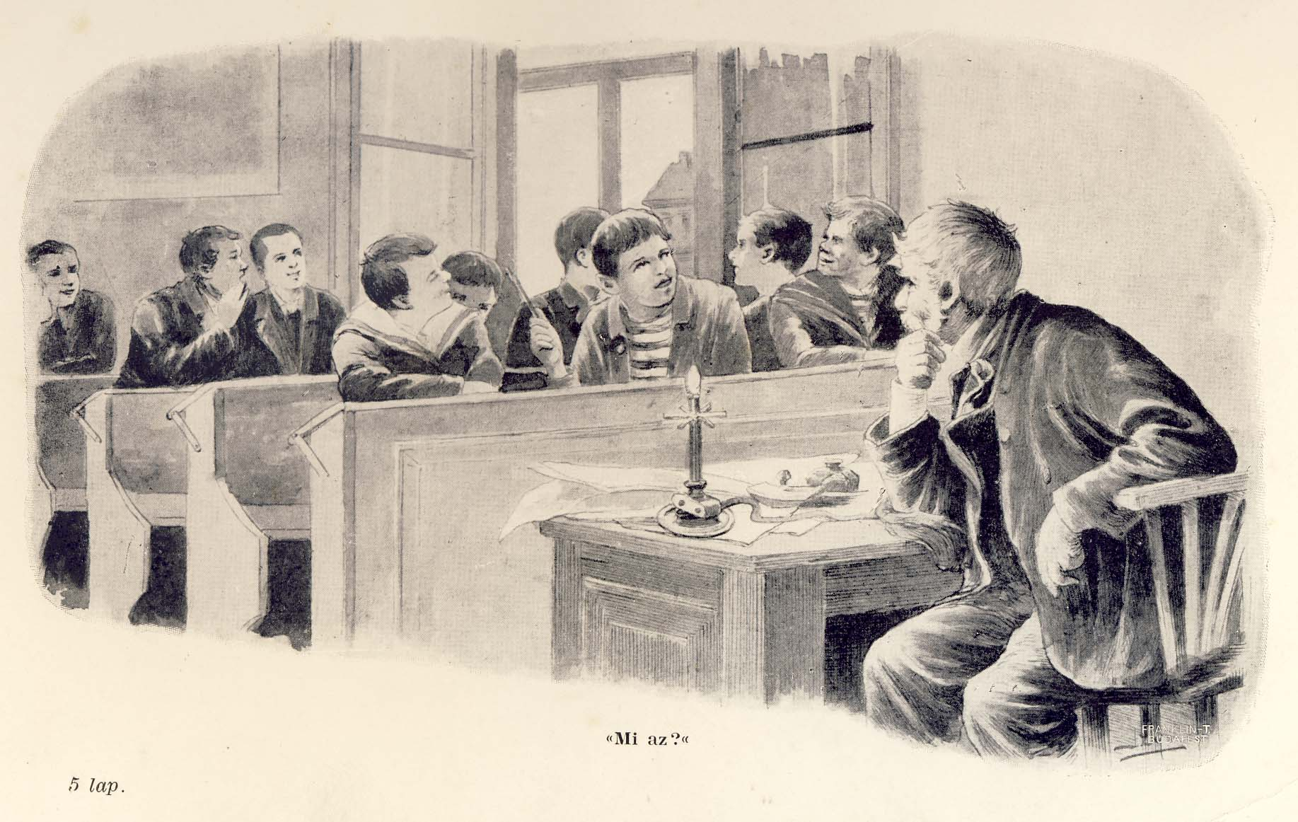 Ferenc Molnár: Pál street boys - The illustration of the first expense, 1907. Hungary, Budapest, Nr. 01.